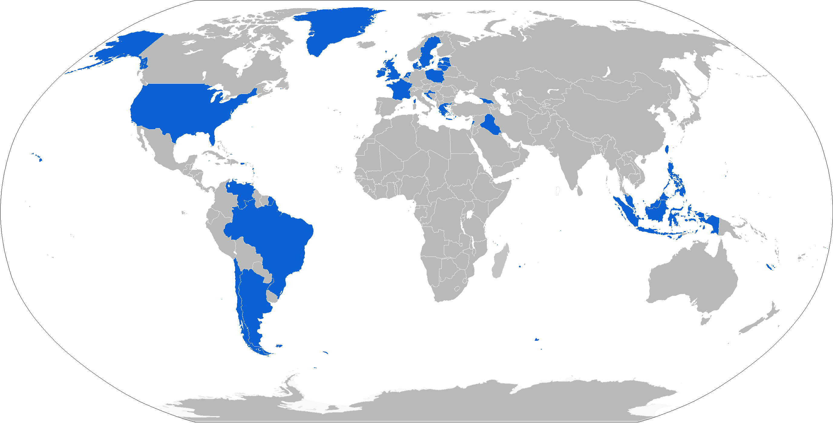 Map with AT4 operators in blue